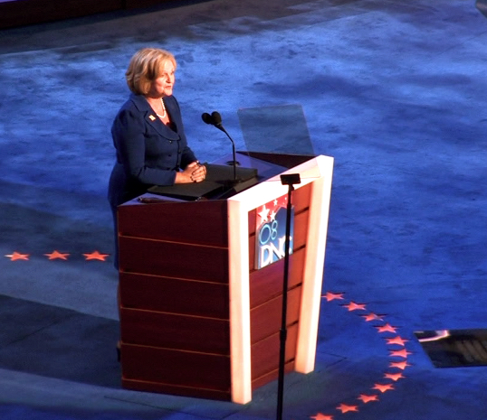 Senator Claire McCaskill delivers her speech on the first night of the 2008 Democratic National Convention.